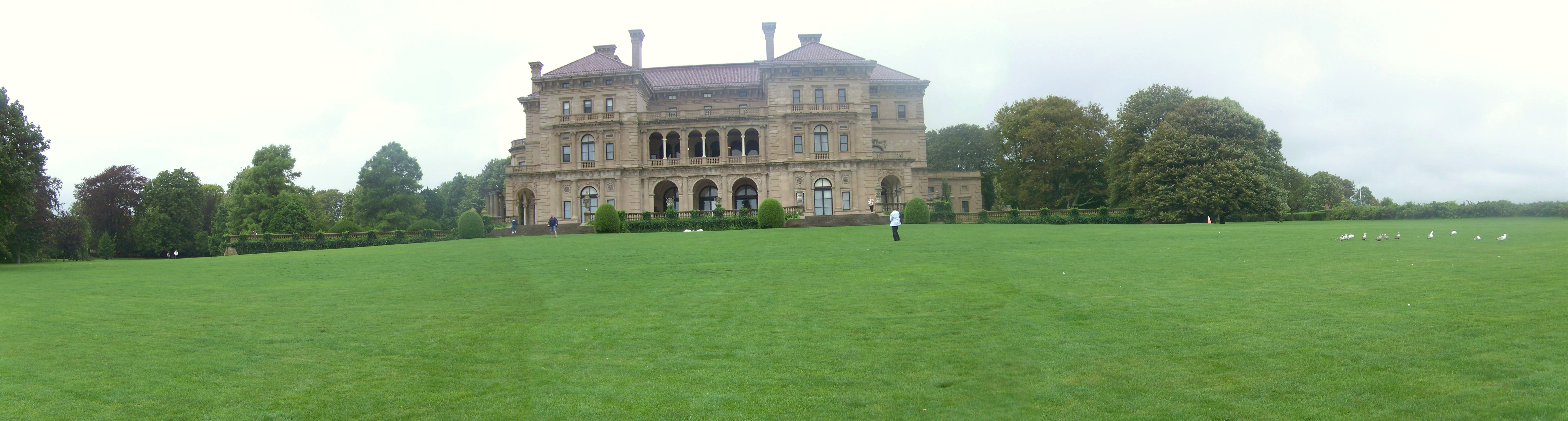 Panorama of The Breakers in Newport, Rhode Island.